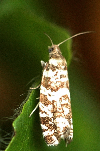 Picture taken in Commanster, Belgian High Ardennes . Species: Epinotia tedella